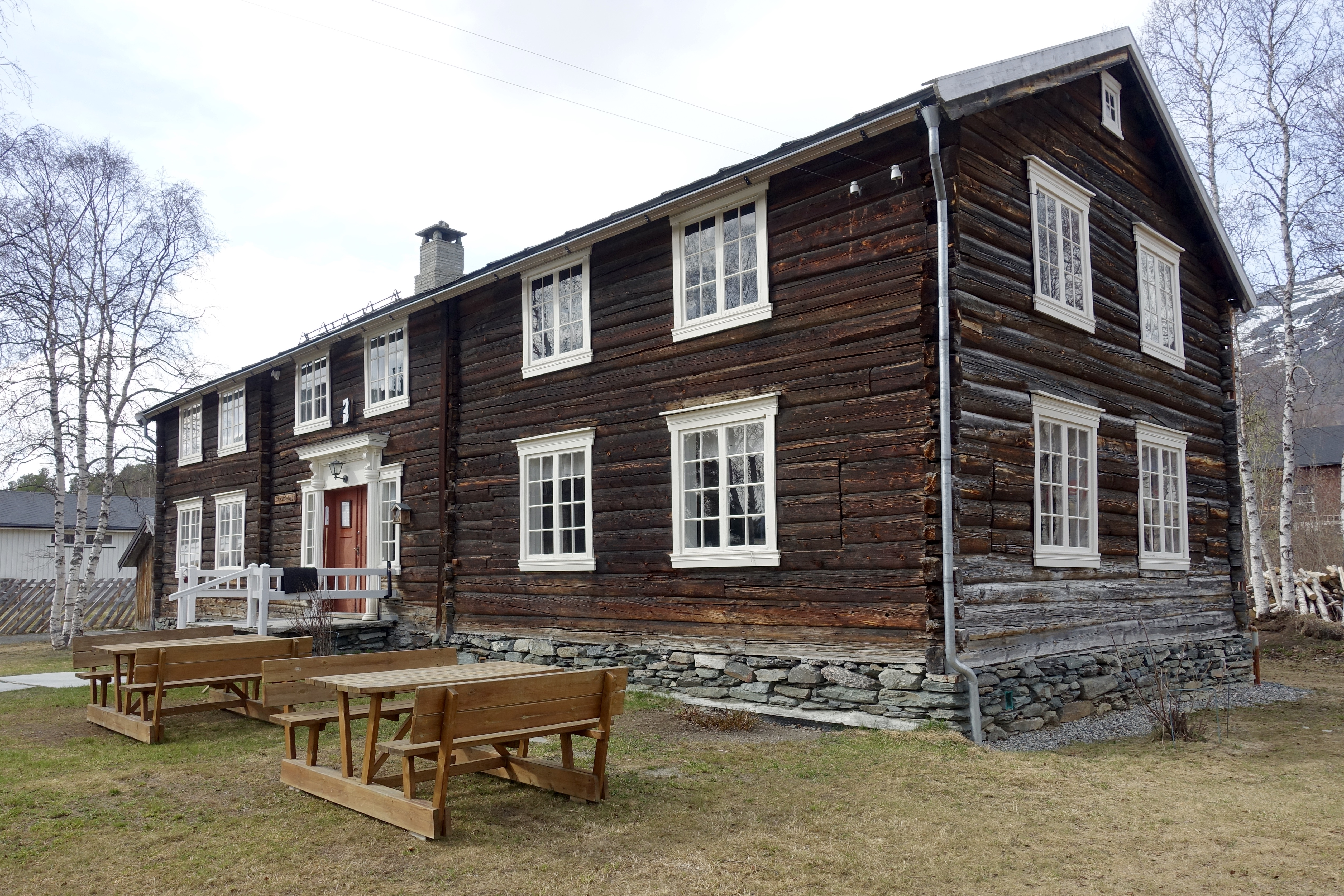 Skjørstadstuggu, a log house and farm cottage build in steps from the 17th to the 19th century, now re-erected at The Oppdal Museum (in Norwegian: Oppdalsmuseet or Oppal bygdemuseum), a local museum in Oppdal Municipality in Trøndelag County, Norway. The open-air museum near downtown Oppdal shows around 30 log buildings dating back to 1500 into the mid 1900’s, such as farm dwellings, barns, storage-houses, mills, smithy, hunting cabins, summerhouse, telephone office, ski-workshop and more. Photo taken on a spring day in April 2019.